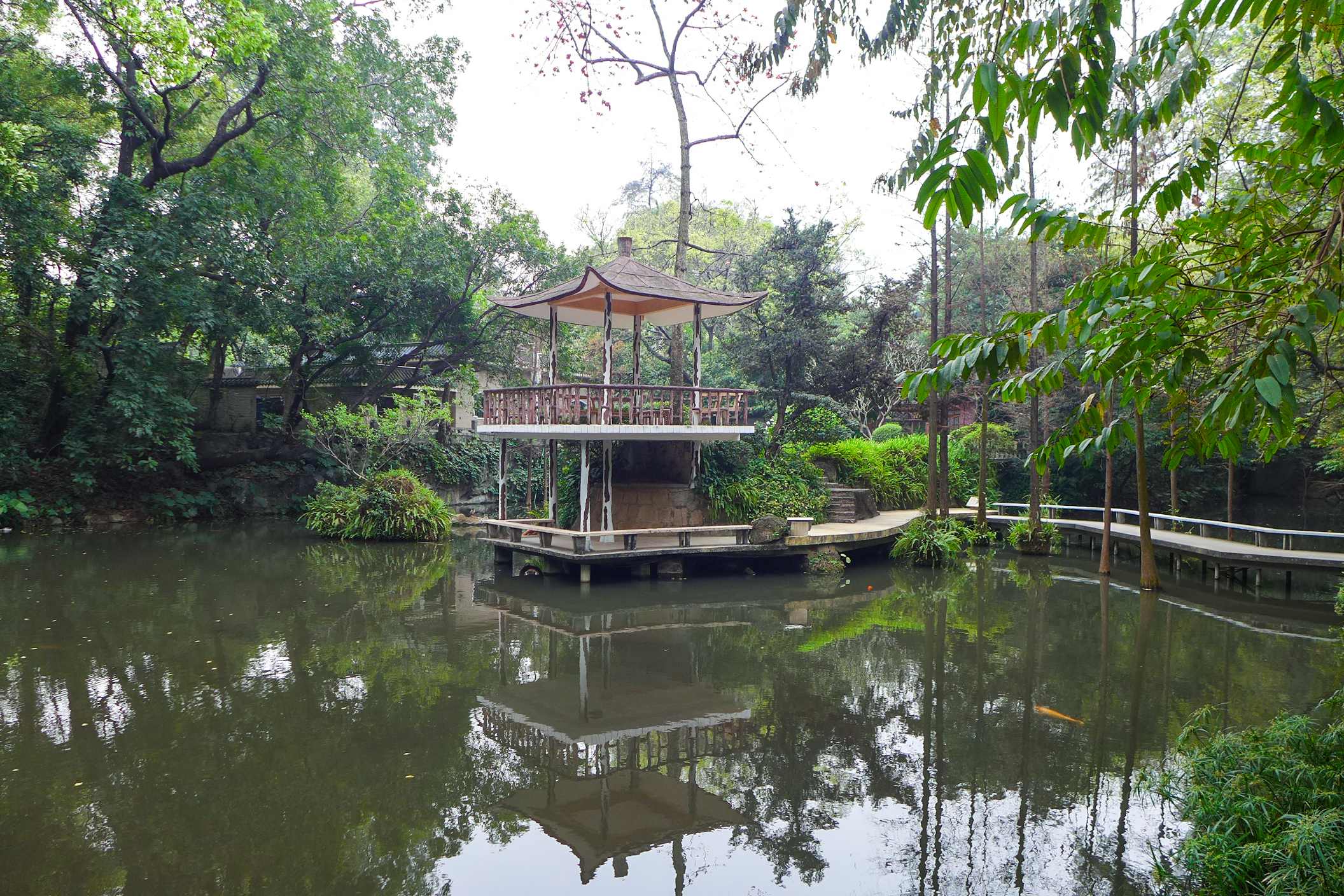 Canton Orchid Garden